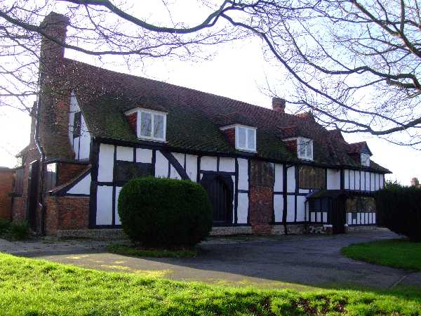 Southchurch Hall, front This is the obviously-Tudor extension to the hall.